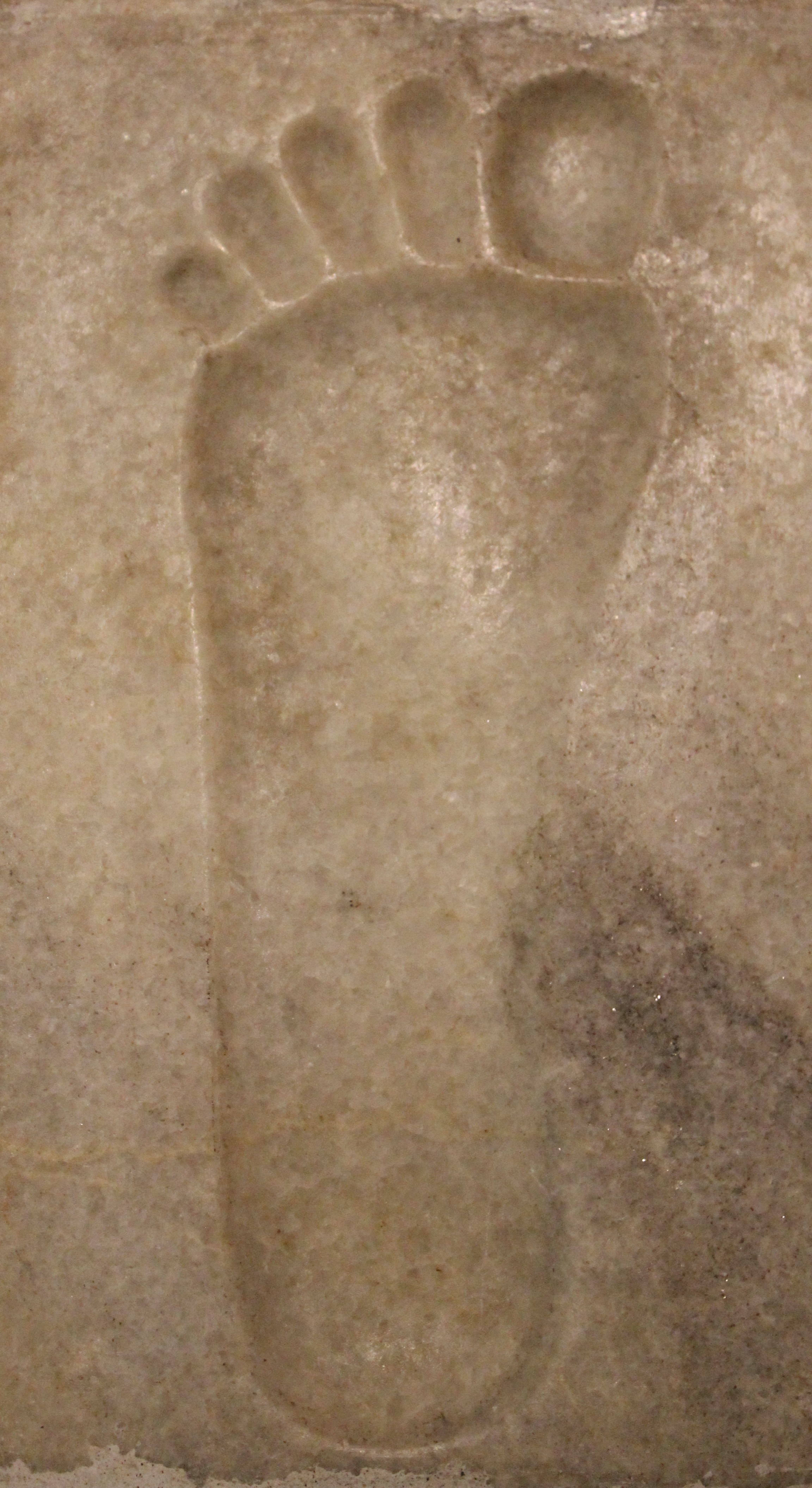 Qdam-e-Rasul in marble